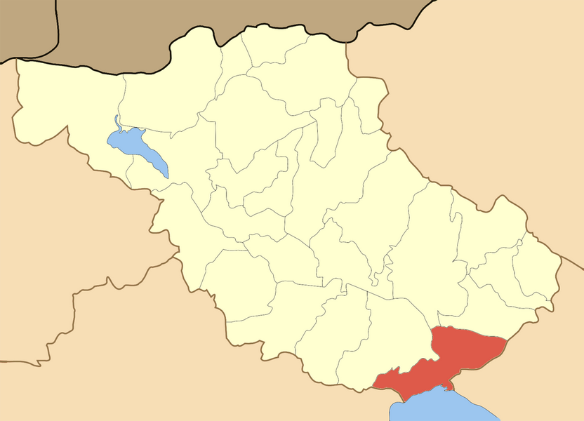 Locator map of Amphipolis municipality in Serres perfecture in Greece.